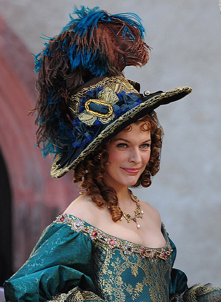 Milla Jovovich at the The Three Musketeers in Würzburg, Germany 2010.